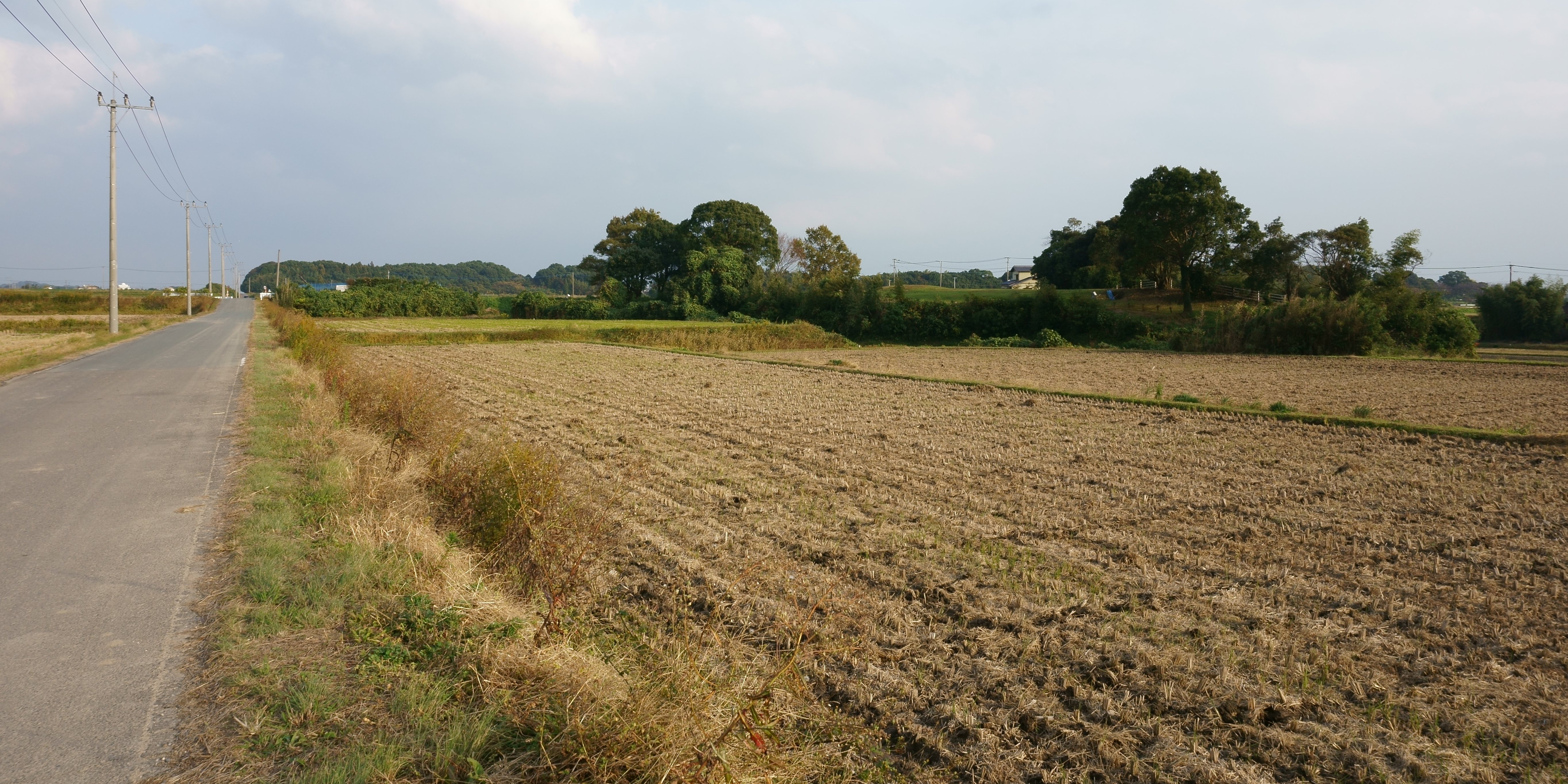 Tsutsumi earthwork ruin in Tsutsumi, Kamimine town, Saga prefecture.